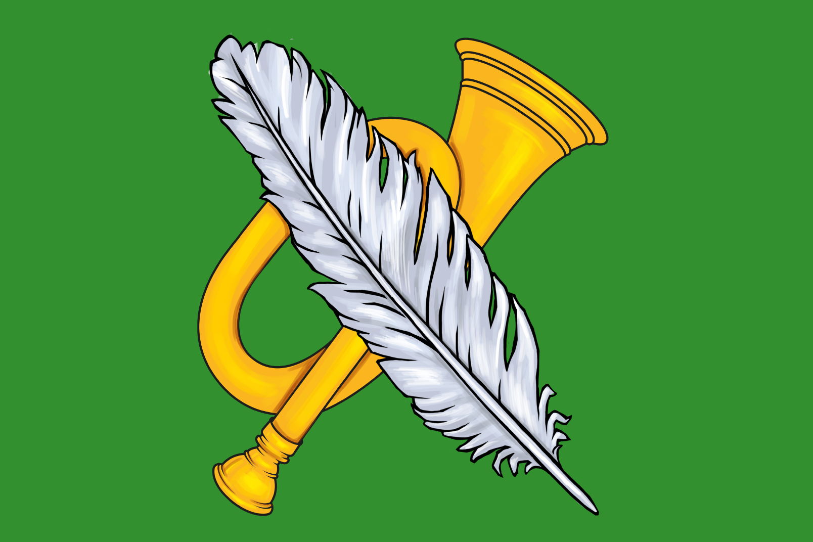 Perovo (rayon of Moscow), flag